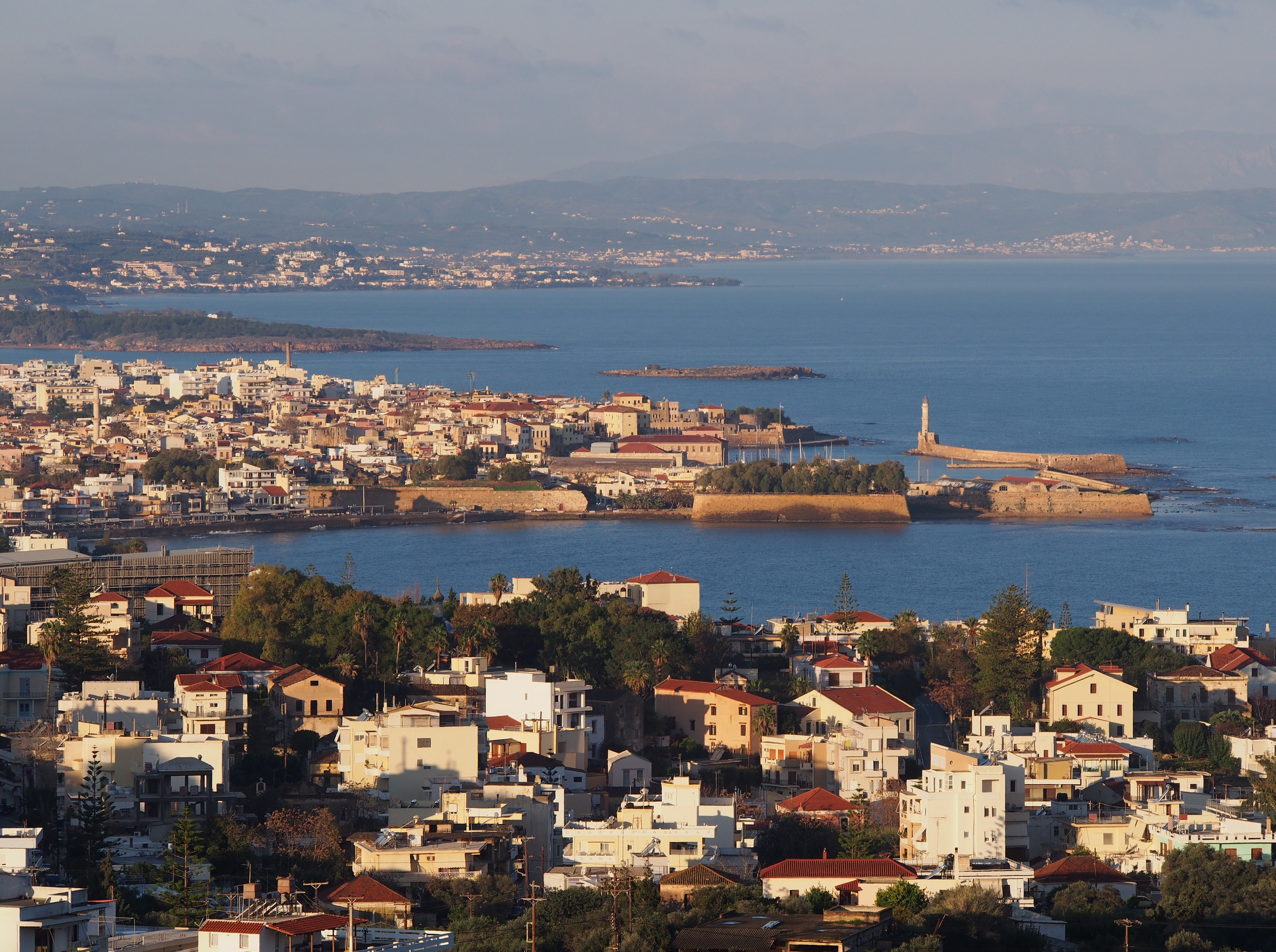 Panorama of Chania from Halepa region, in the morning